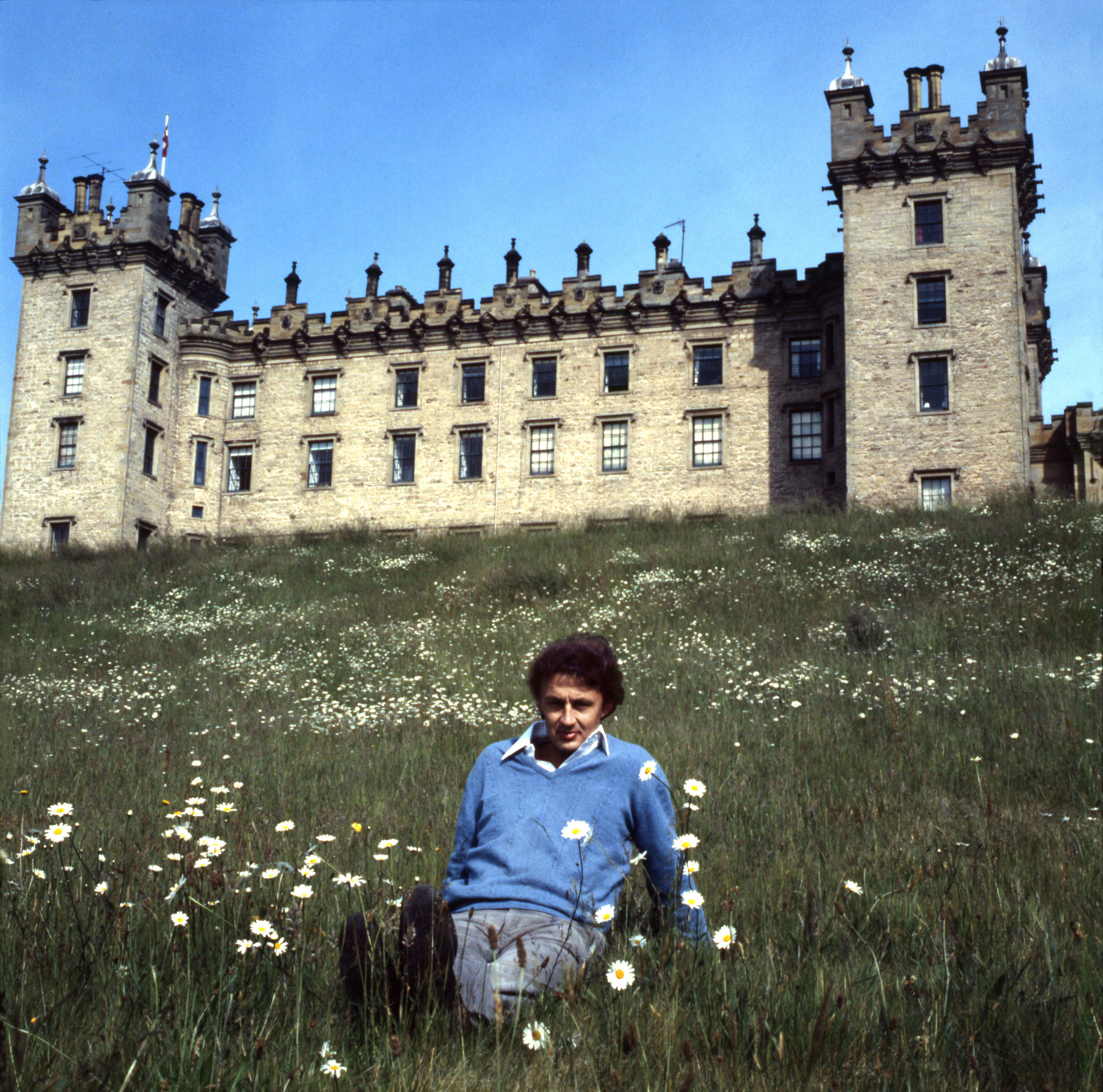 Guy Innes-Ker, 10th Duke of Roxburghe, outside Floors Castle.